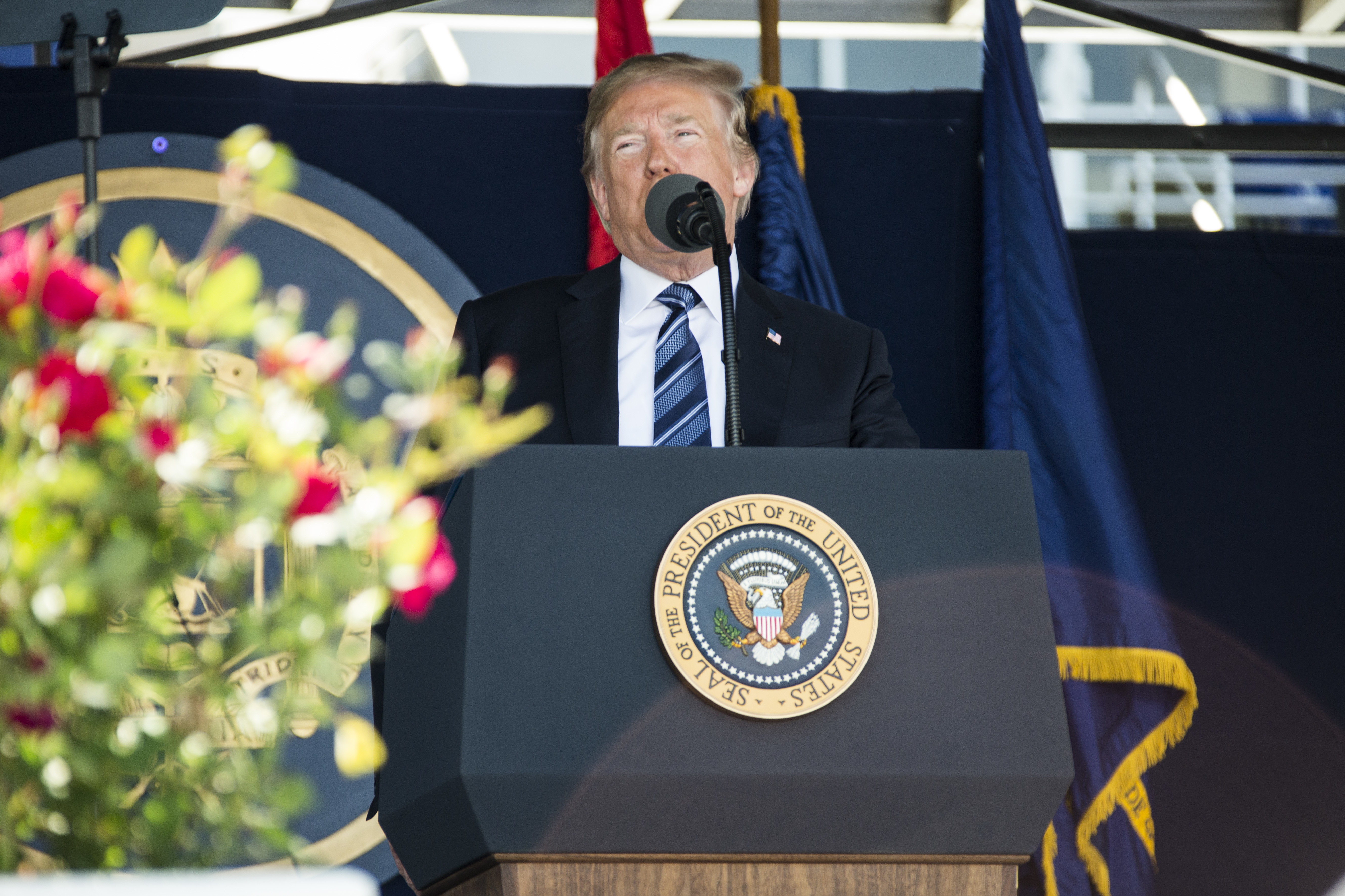 The Honorable President Donald J. Trump, 45th President of the United States, speaks during the graduation and commissioning ceremony of the U.S. Naval Academy Class of 2018, Annapolis, Md., May 25, 2018. Trump gave a graduation address to the 1,042 graduating midshipmen, along with handing each one their diploma. (U.S. Marine Corps photo by Cpl. Hailey D. Clay)